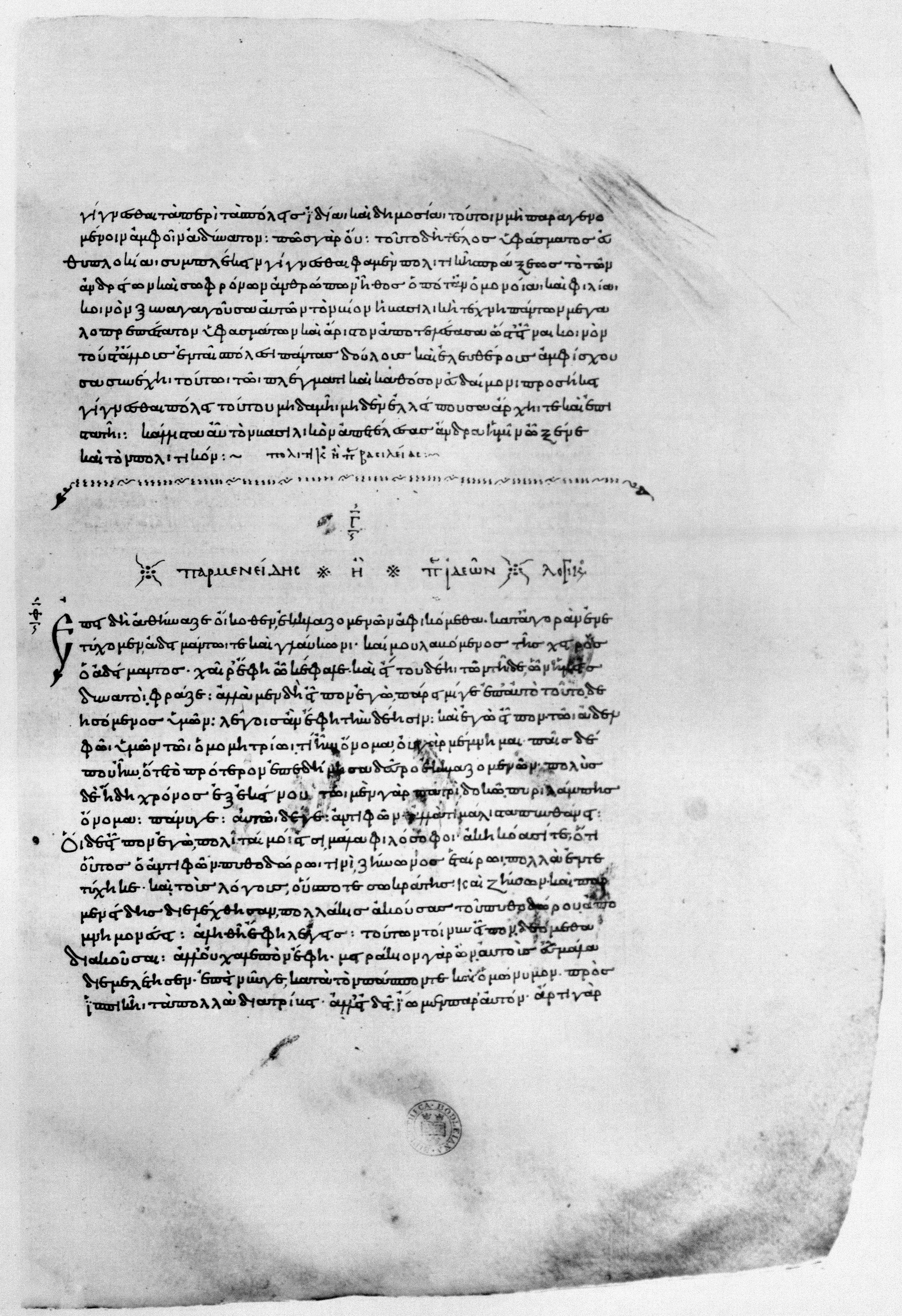 Page of the Codex Oxoniensis Clarkianus 39 (Clarke Plato). Dialogue Parmenides.